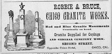 This is an image of an ad for William Robbie's Chico Granite and Marble Works.